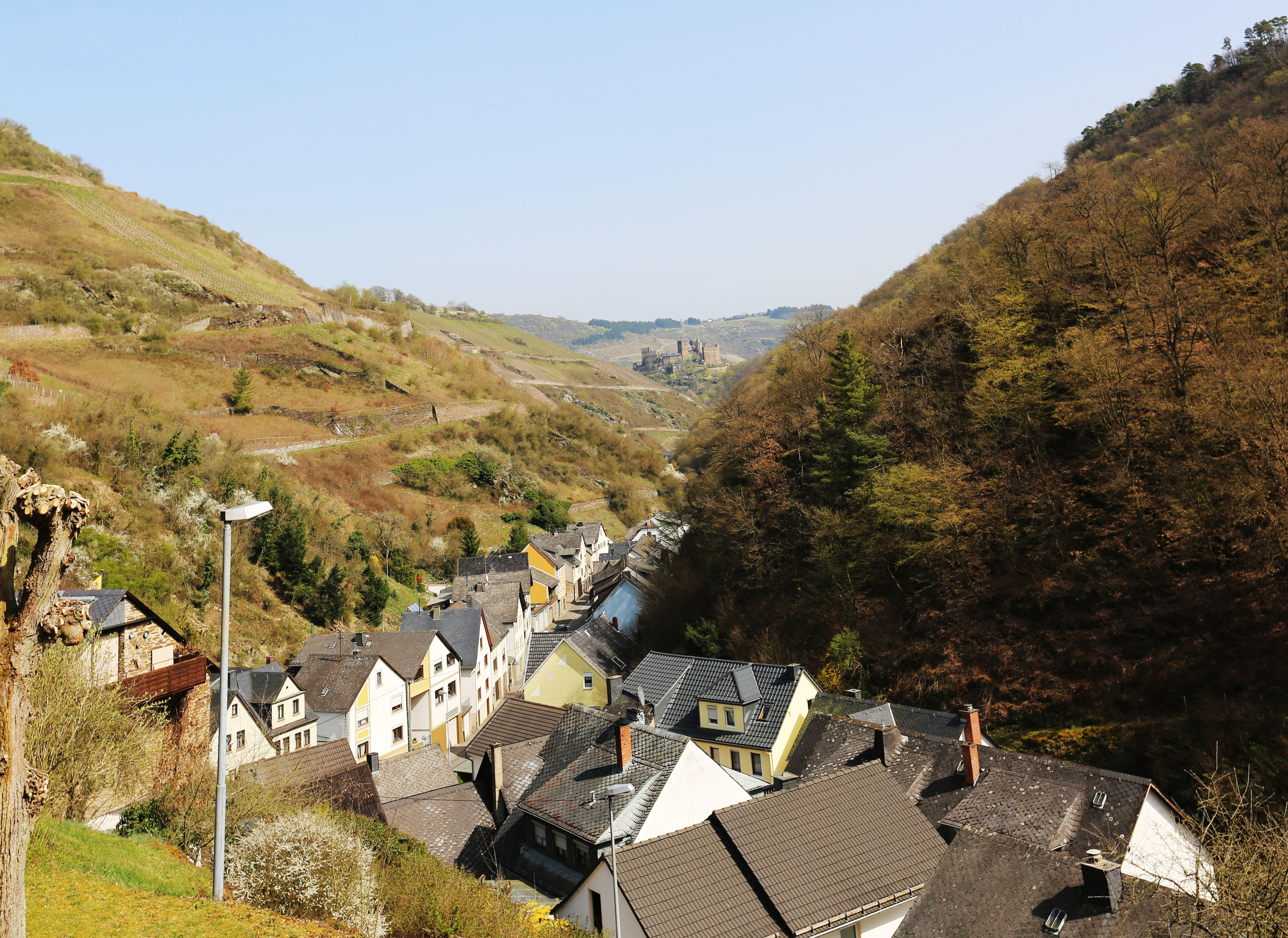 View from the Chapel in Engehöll in direction of Schönburg Castle Oberwesel, Rhineland-Palatinate, Germany